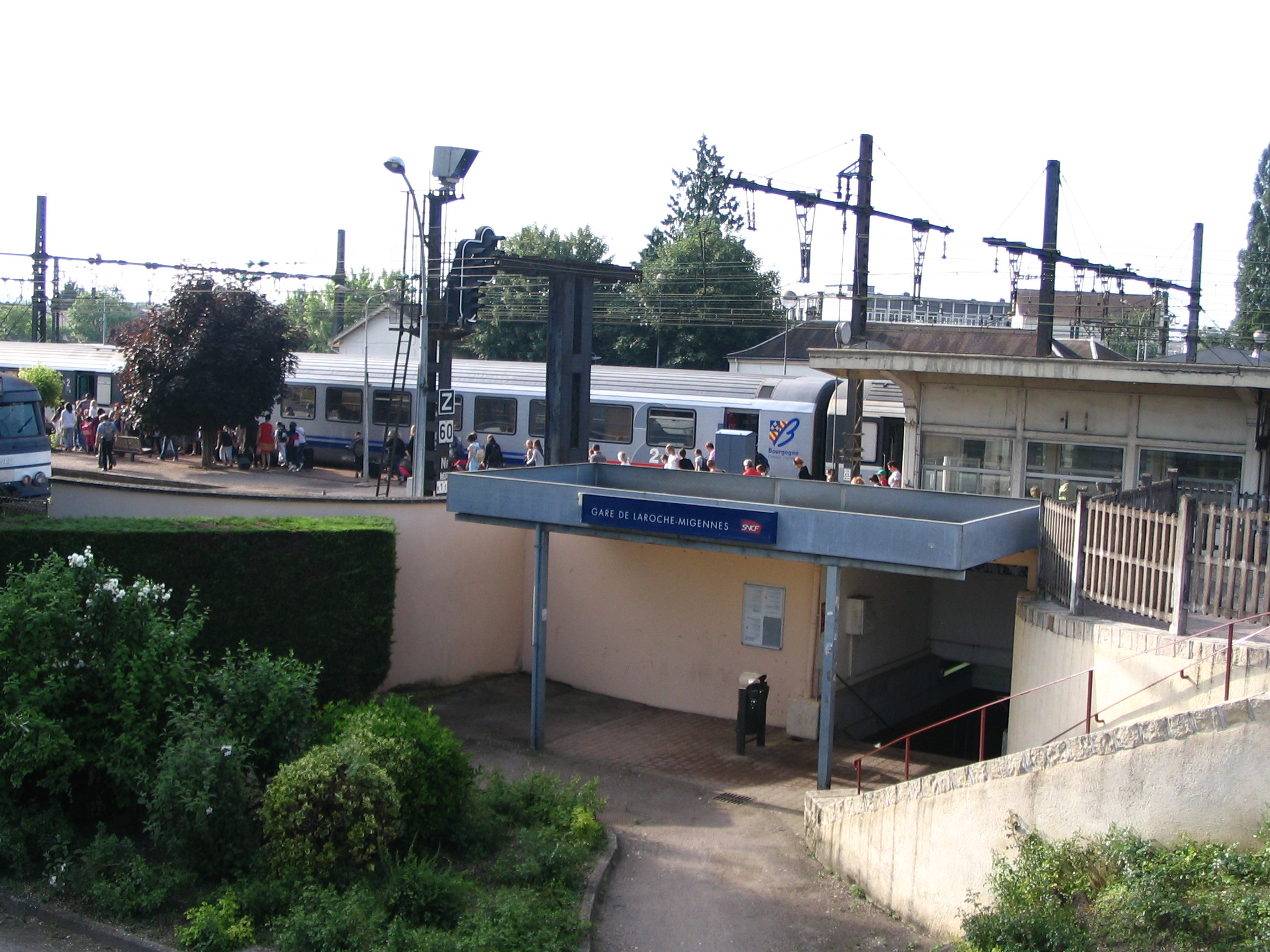 The Laroche-Migennes train station, in Migennes, Yonne, France.